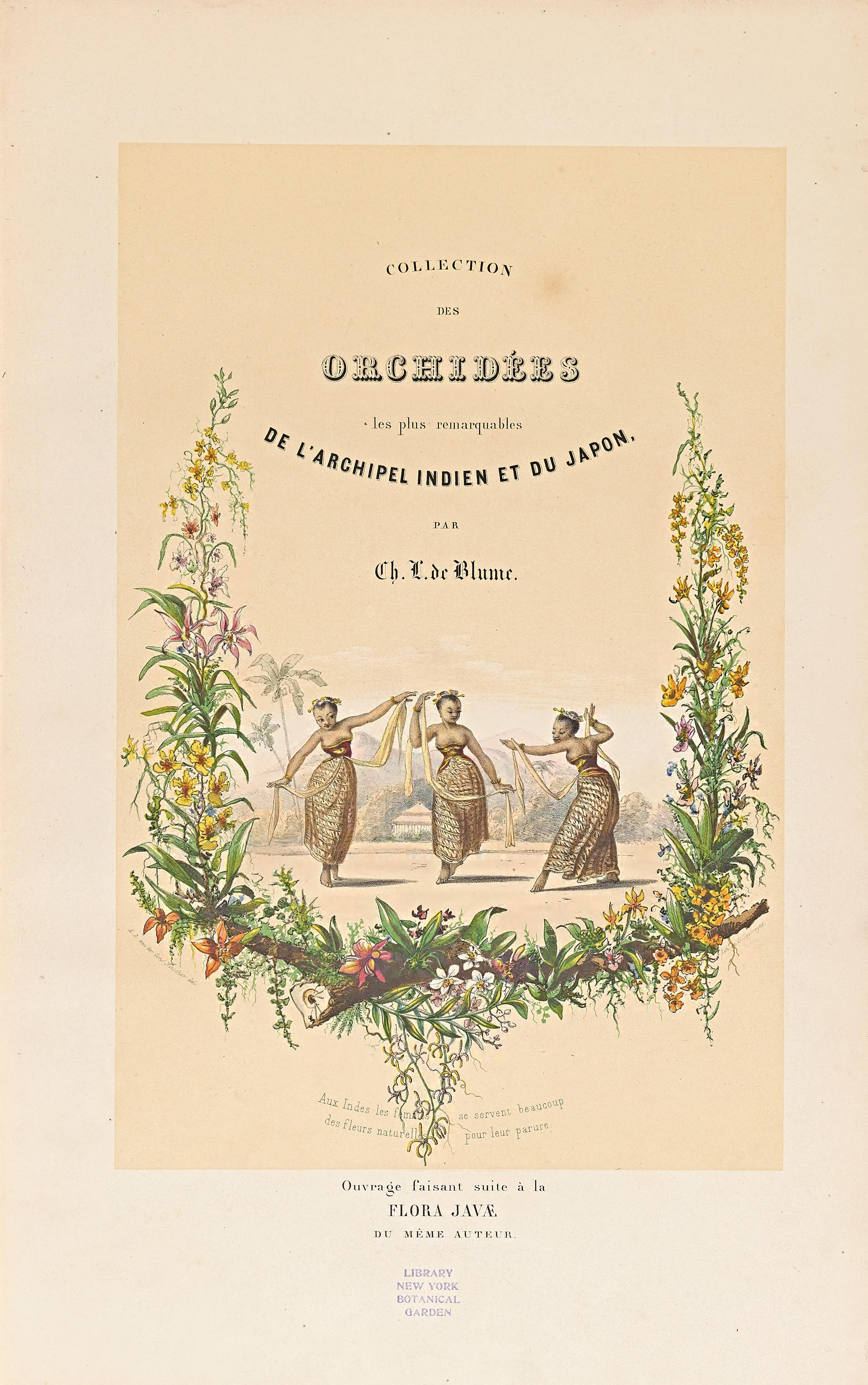 Title page of "Collection des Orchidées les plus remarquables de l'archipel Indien et du Japon", published by C. G. Sulphe, Amsterdam